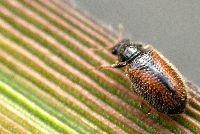 Laricobius erichsoni from Commanster, Belgian High Ardennes .